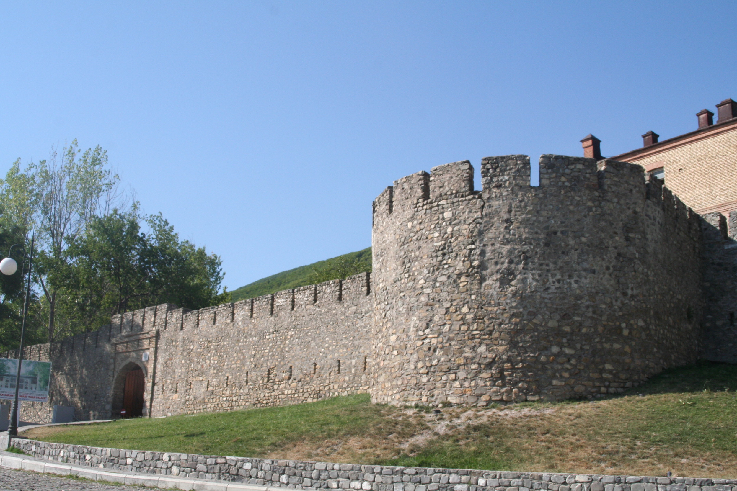 Fortress of Shaki